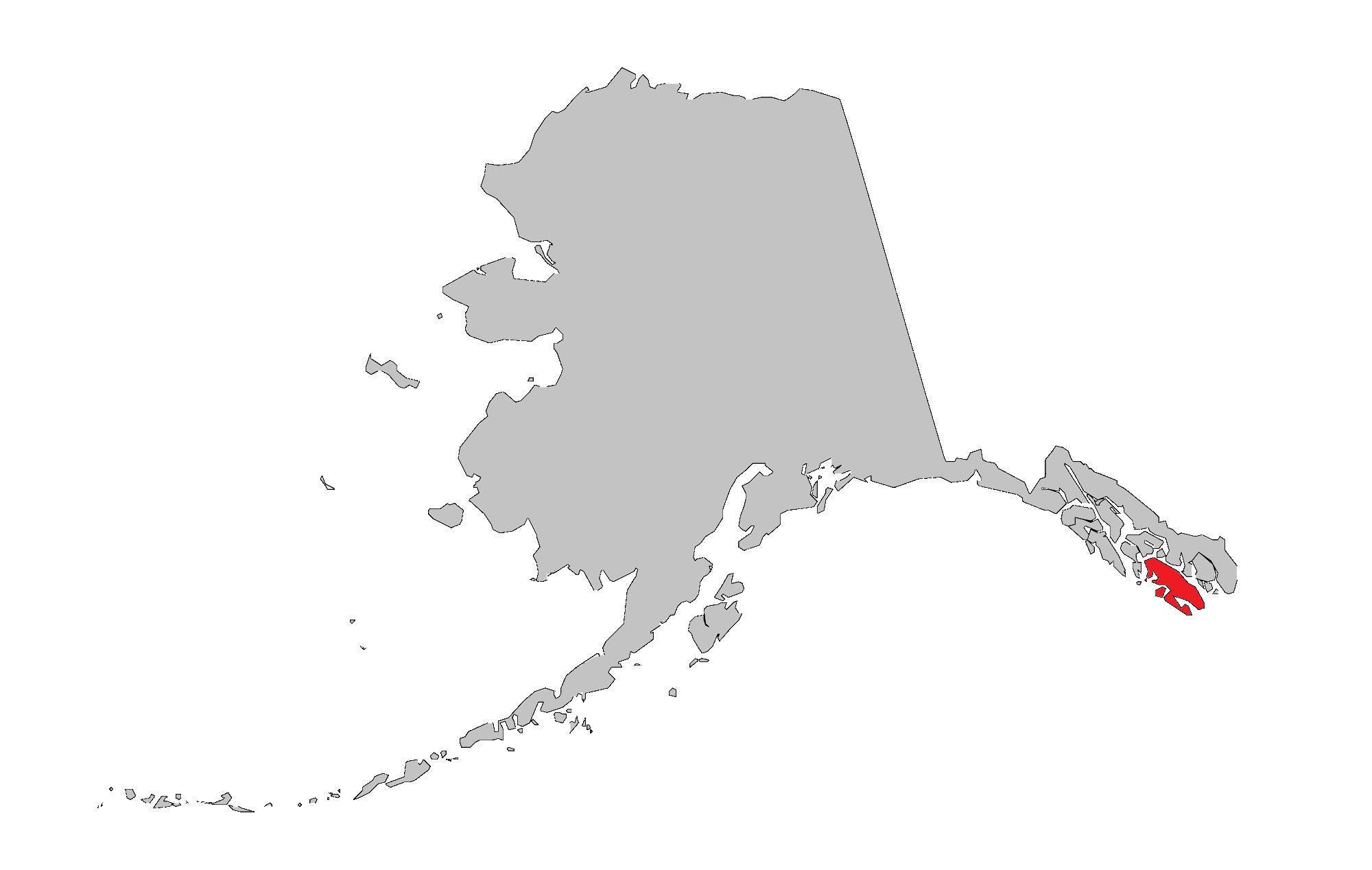 A map of the former Prince of Wales Census Division (in red) in Alaska.